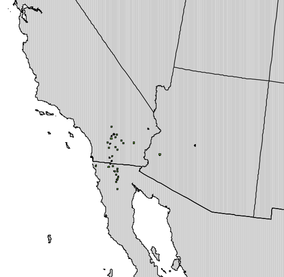 Flora distribution range map of Washingtonia filifera — California fan palm. Native to the western Sonoran Desert — in Southern California (Colorado Desert), northern Baja California, and westernmost Arizona.